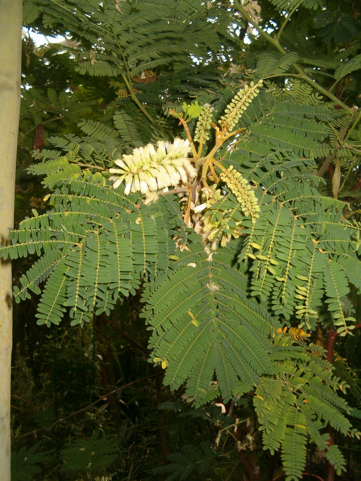 Location: Botanical Gardens Berlin Dahlem